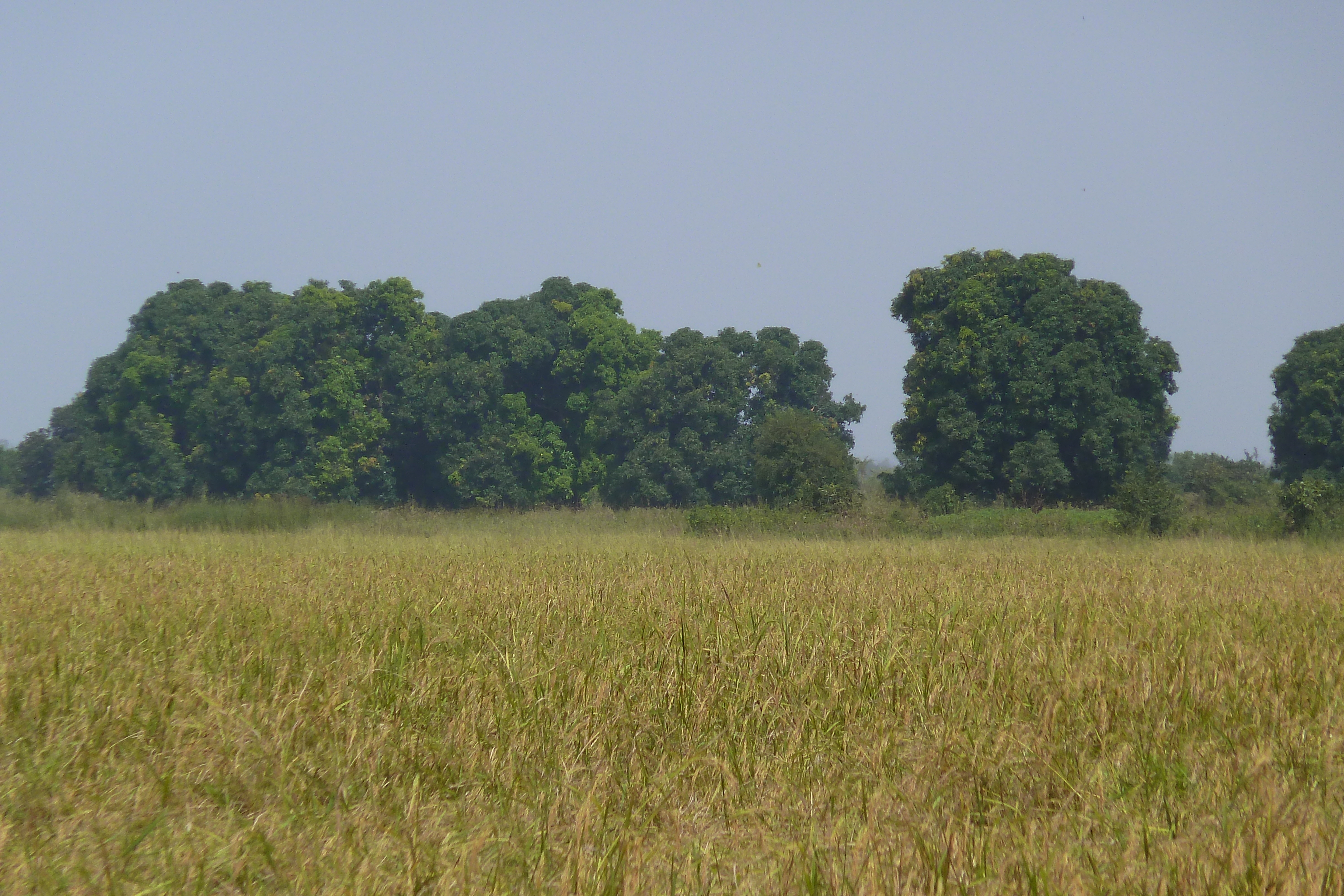 Inland valley rice cultivation, Cercle de Sikasso